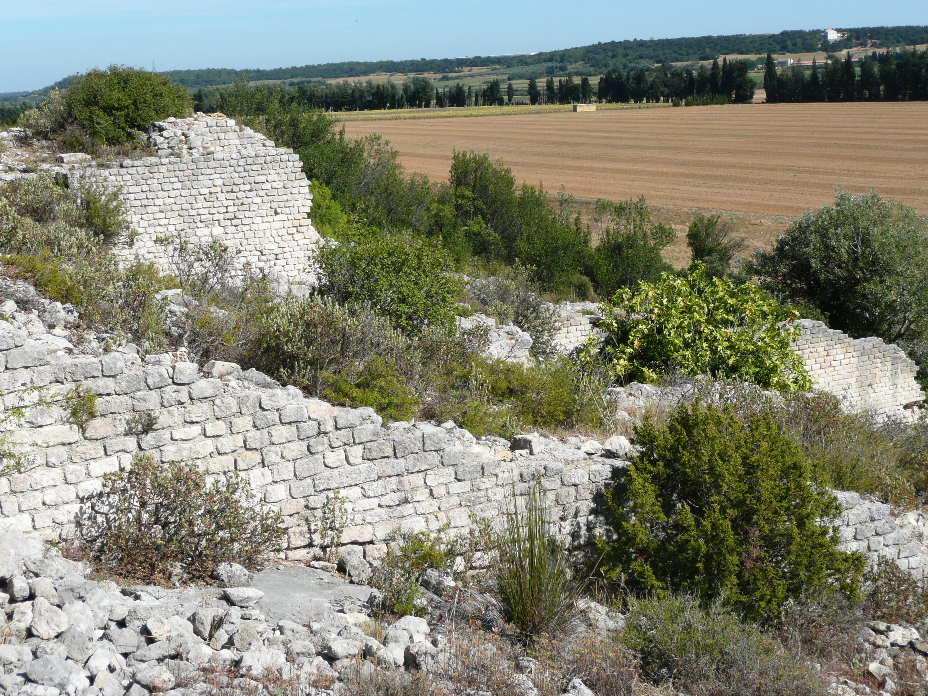 Mill walls